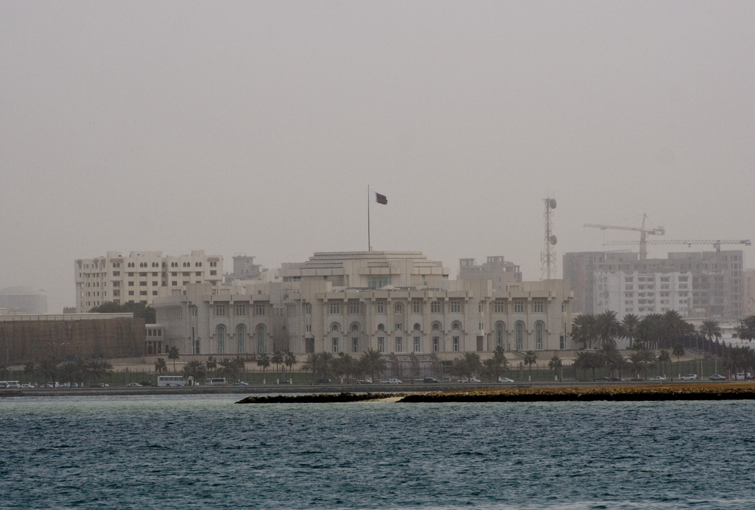 Far view of Amiri Diwan of Qatar.